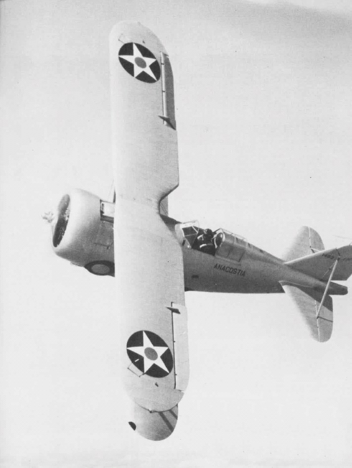 A Grumman F3F-2 assigned to Naval Air Station Anacostia, Washington D.C. (USA), probably in early 1941.